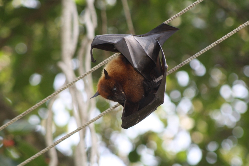 ndian Flying-fox (Pteropus giganteus) Bat death due to electrocution IMG 9381 (1). Melghat Tiger Reserve, Maharashtra.